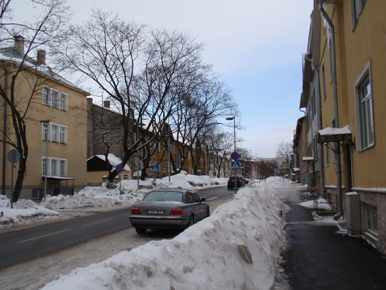 Juhan Kunder street in Torupilli, Tallinn.